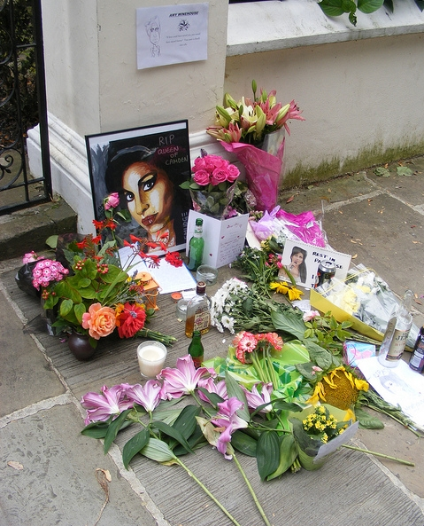 Amy Winehouse Memorial